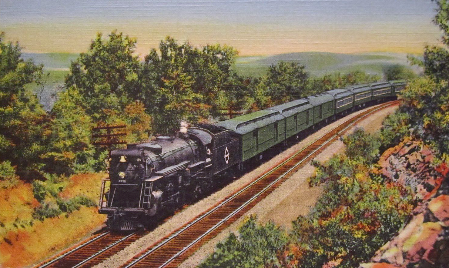 Postcard photo of the Erie Limited in Port Jervis, New York. The train traveled from New York to Chicago.